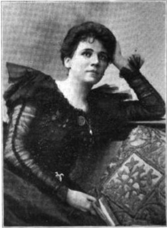 Photograph is from page 254 From the Google Books archive: Title The critic, Volume 29 Publisher Good Literature Pub. Co., 1898 Original from Princeton University Digitized Apr 18, 2008